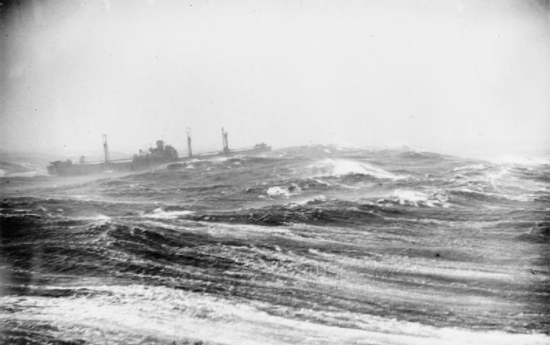 Convoys To Russia during the Second World War - Convoy Ra64, 17 - 28 February 1945 A merchant ship in convoy RA64 sails through heavy seas in the Arctic Ocean.